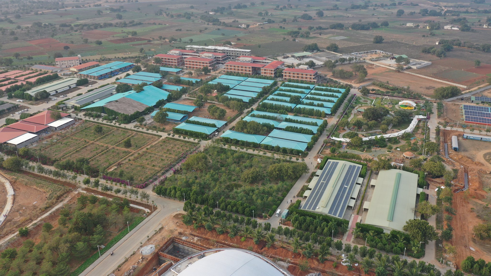 The Green Kanha initiative is an environmental initiative committed to creating a safe haven that nurtures india's mega bio-diversity and our fast disappearing indigenous and endangered species.